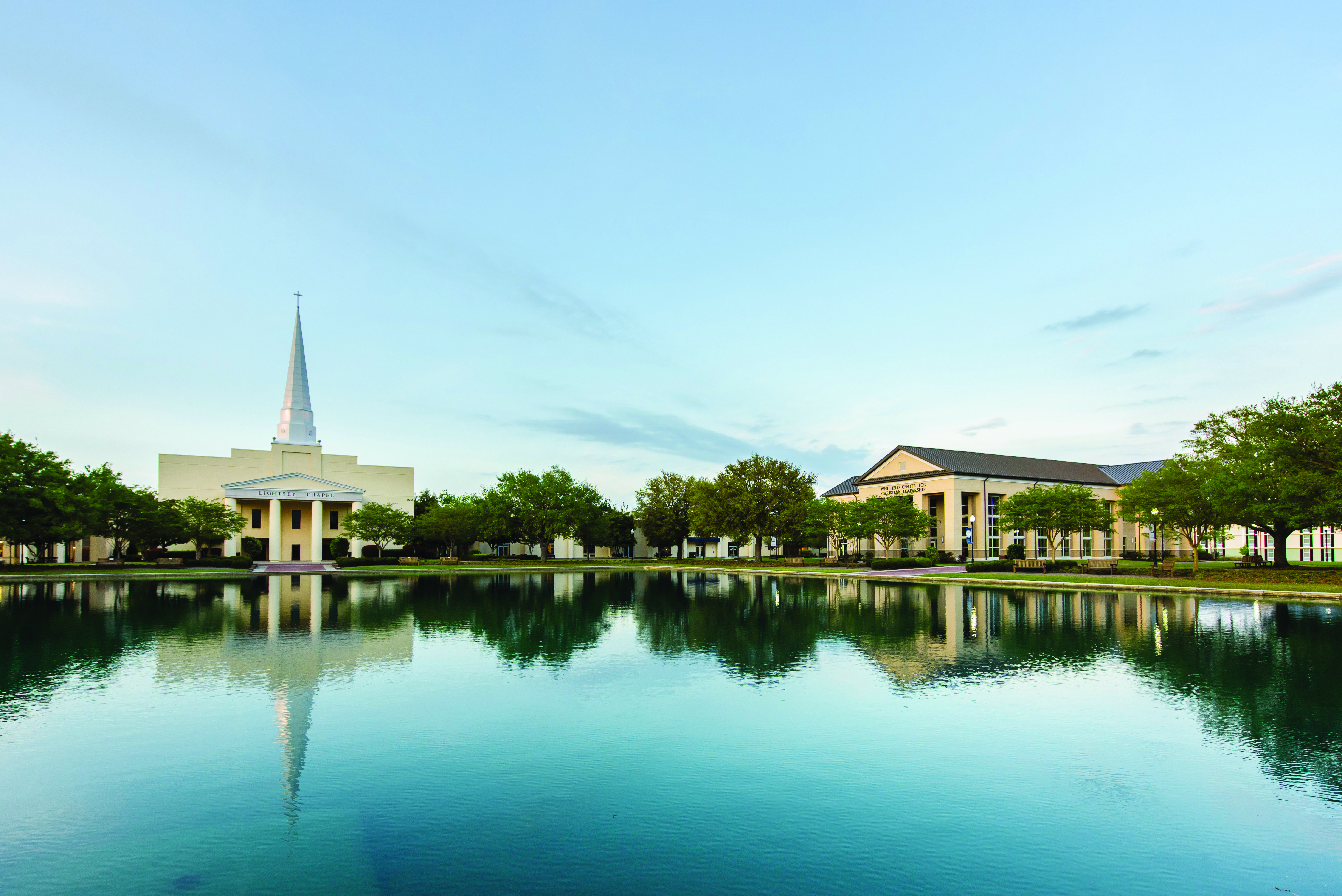 Charleston Southern University's Lightsey Chapel Auditorium is one of the signature buildings on campus. The facility is the home for campus events, concerts, theatre and more.